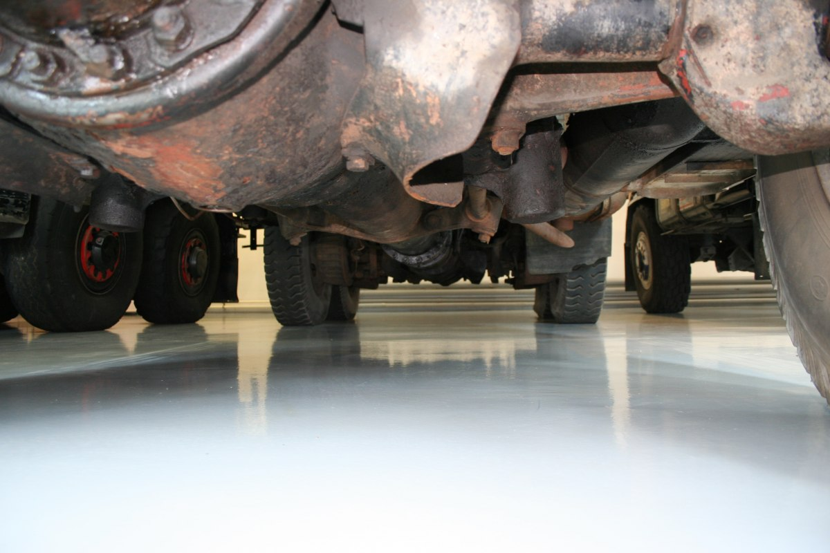 Backbone chassis view of Tatra 138 6x6 VN from the expedition Lambarene at Tatra museum